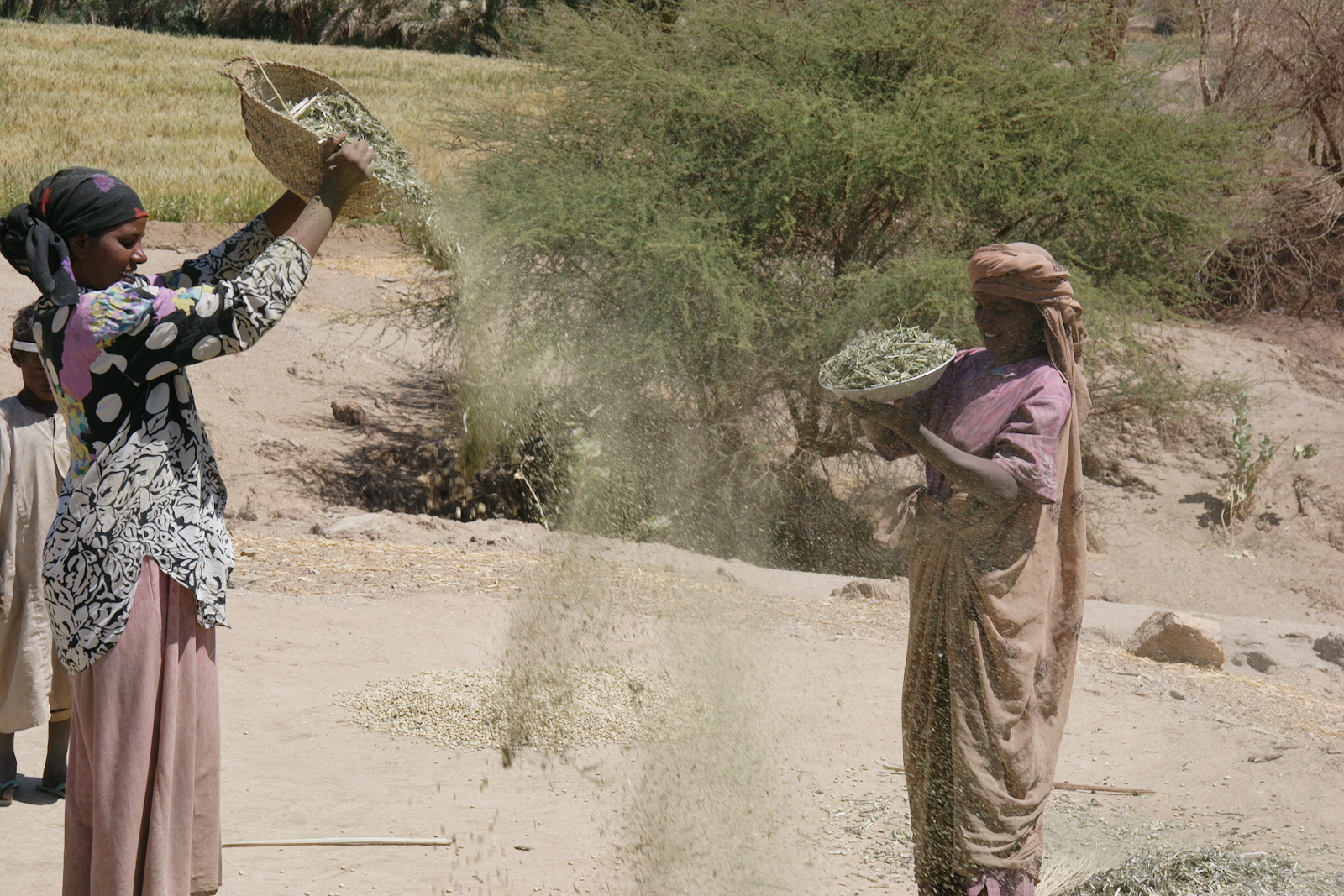 The flat Tabaq basket is still used for winnowing on Us Island in Dar al-Manasir, Northern Sudan.)